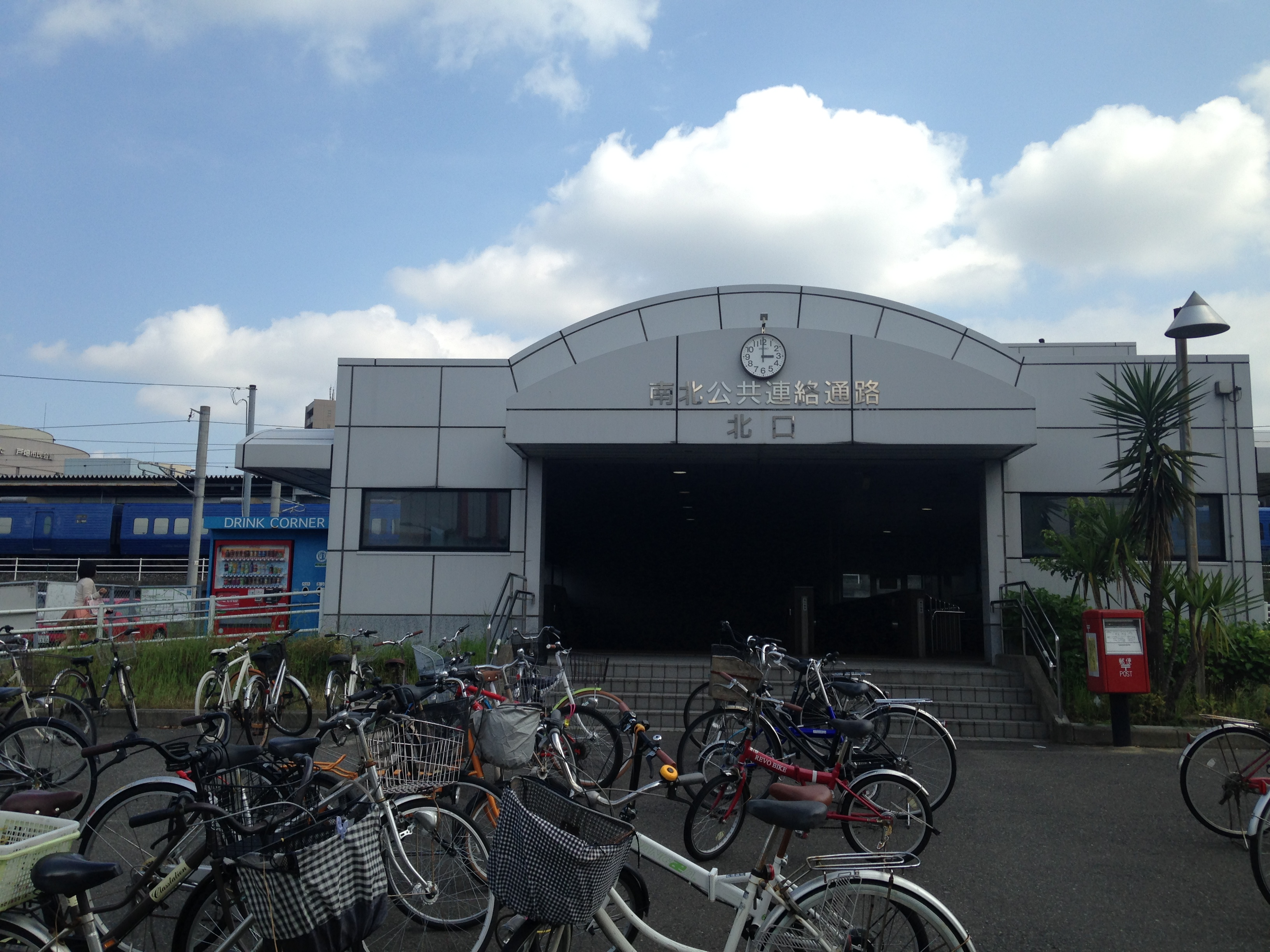 Tobata Station public passageway north entrance